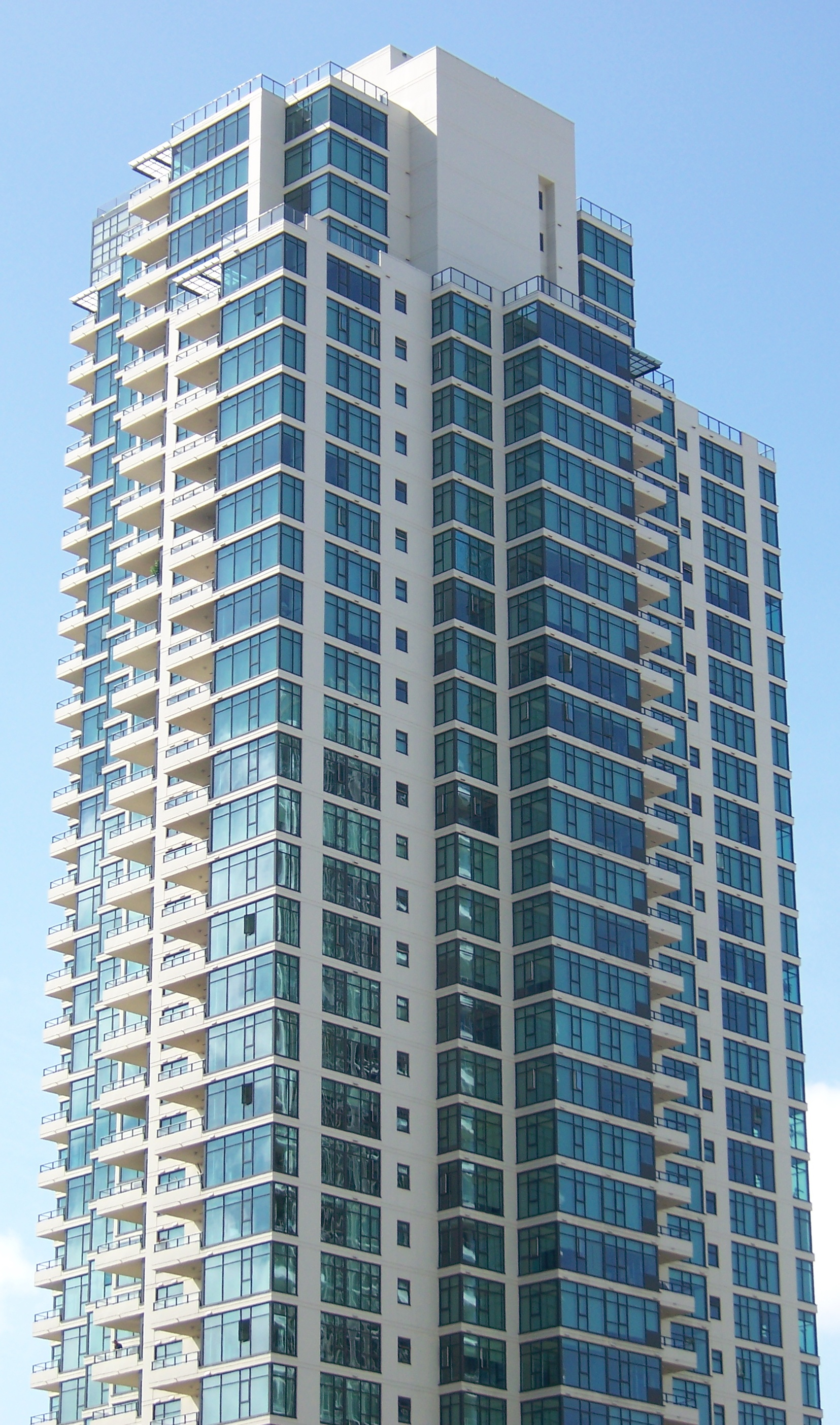 The Grande North at Santa Fe Place skyscraper in San Diego, California. Construction was completed in 2005.